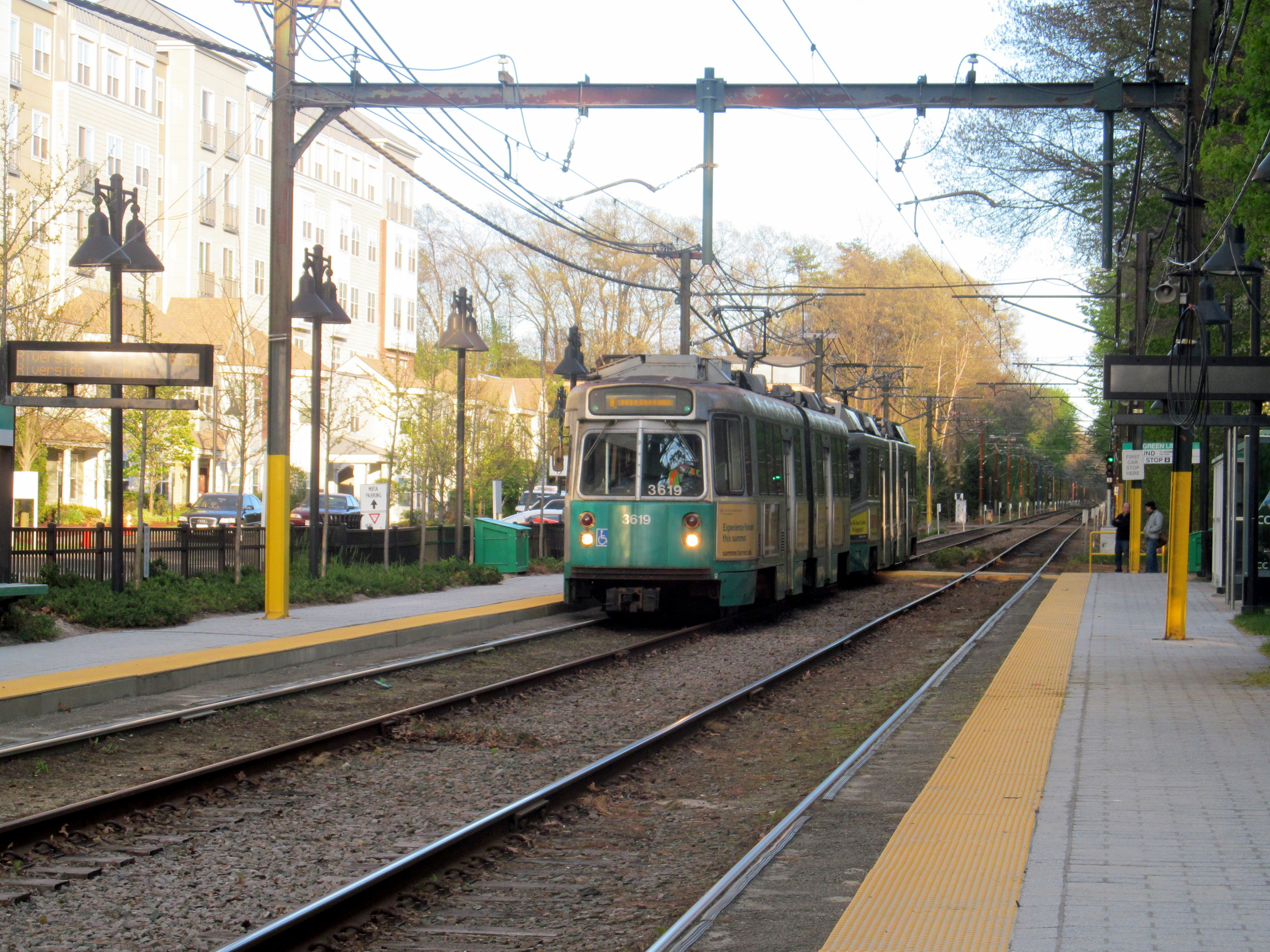 MBTA 619 heads an outbound train at Woodland station in May 2016